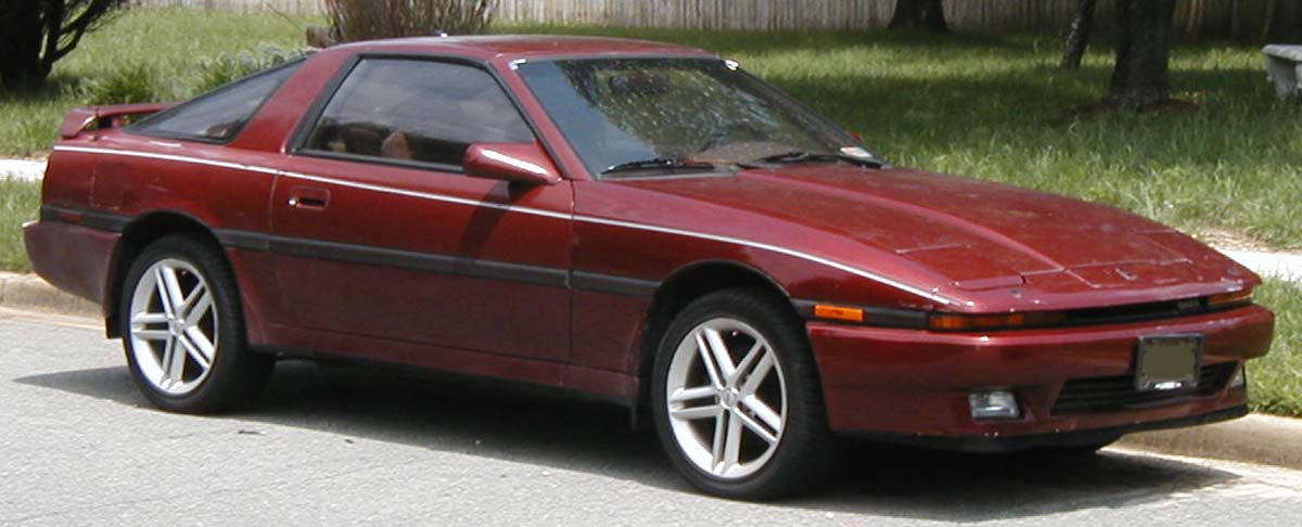 Toyota Supra MKIII photographed in USA.